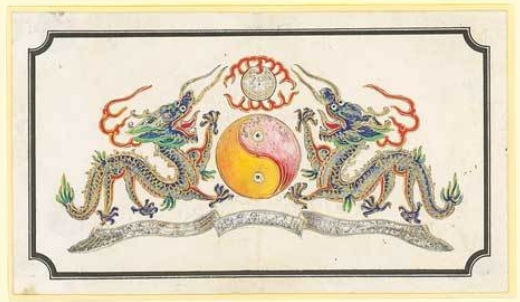 Esssay for the 1878-83 The Large Dragon Issue stamps of China.